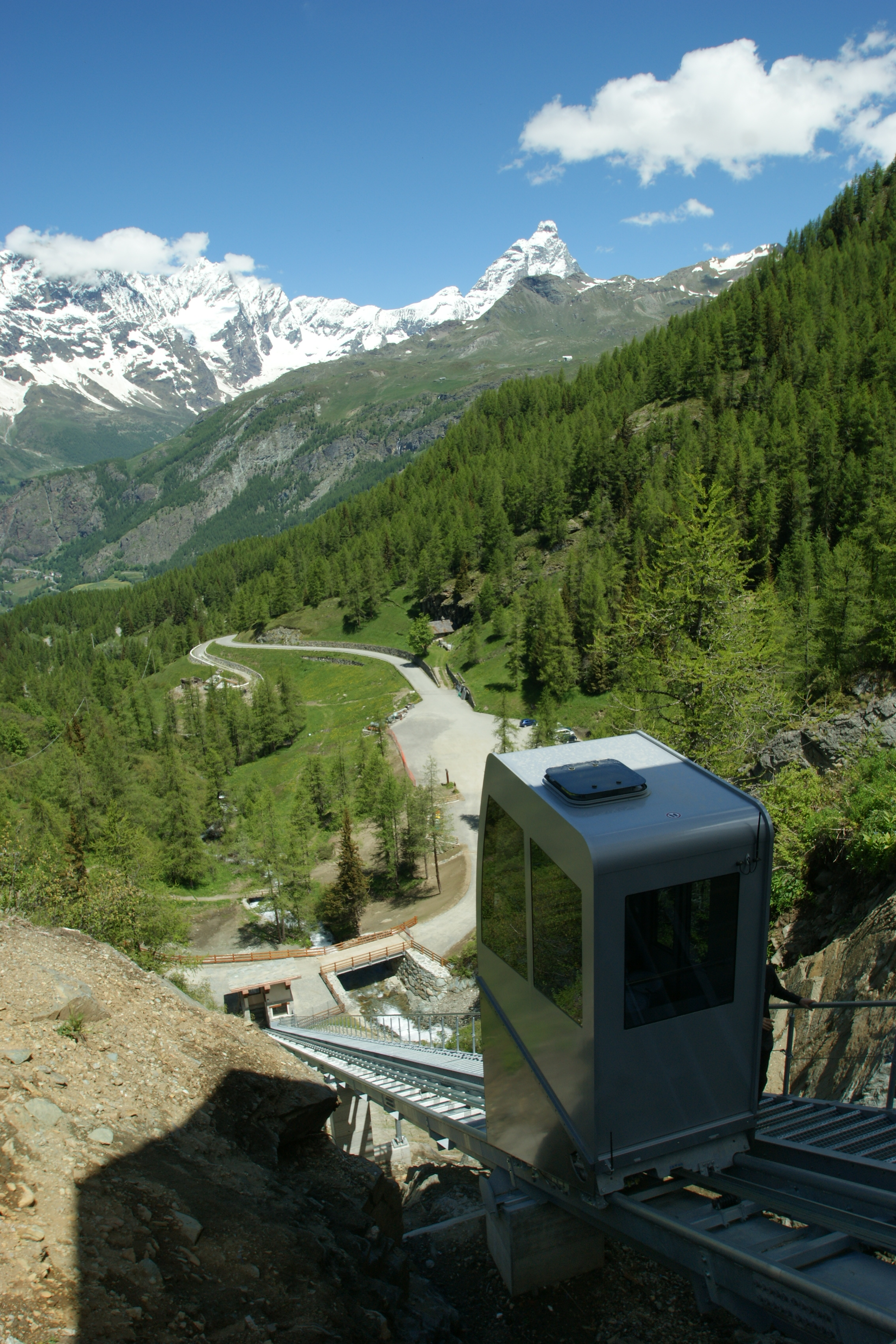 Inclined Lift Chenail, Valtournenche / Italy with Mount Cervino (Matterhorn)